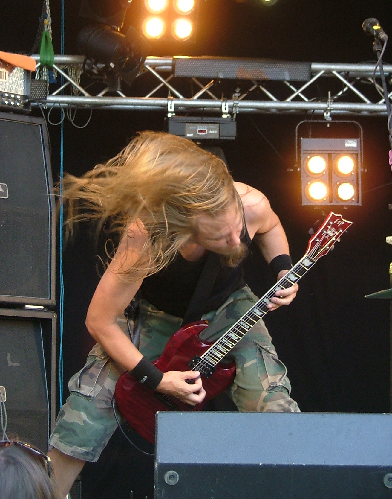 Finnish thrash metal band Mokoma in Kuopio at Rockcock-musicfestival